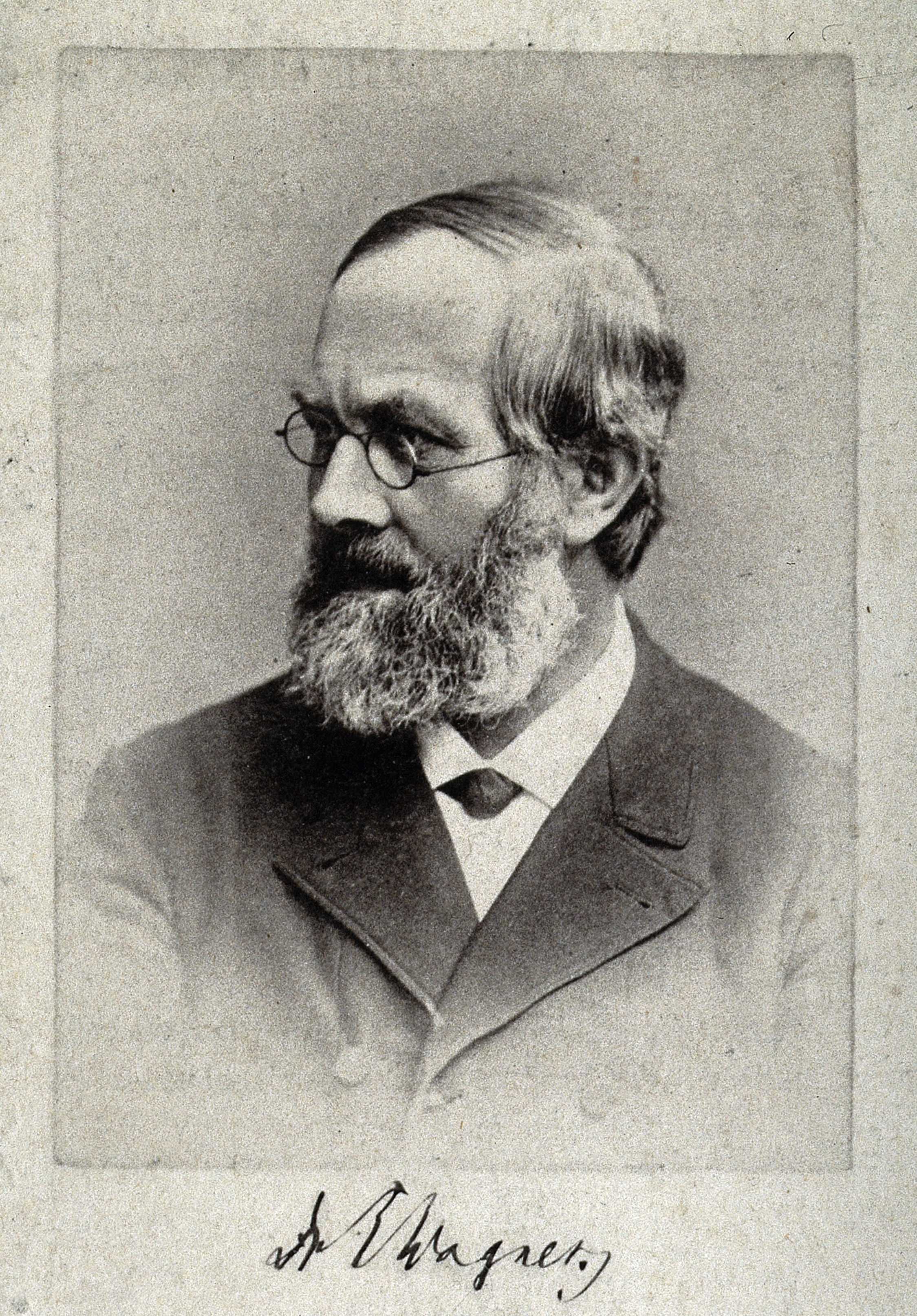 Ernst Leberecht Wagner. Photograph. Iconographic Collections Keywords: portrait photographs